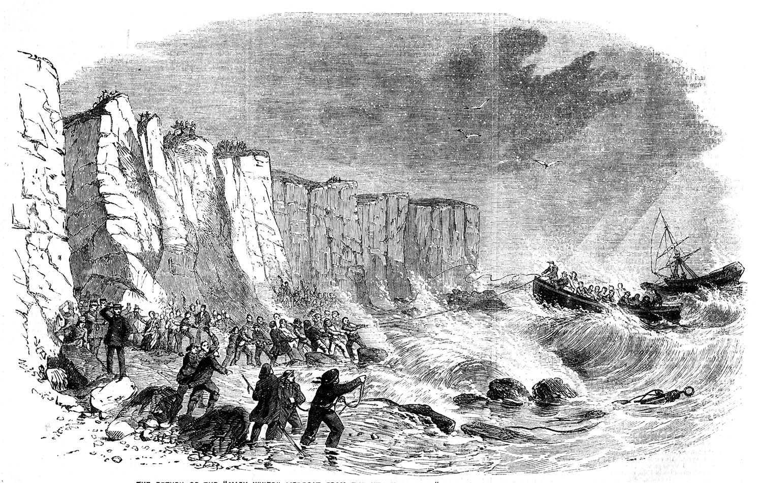 The Mary White rescuing the crew of the "Northern Belle", 5 January 1857